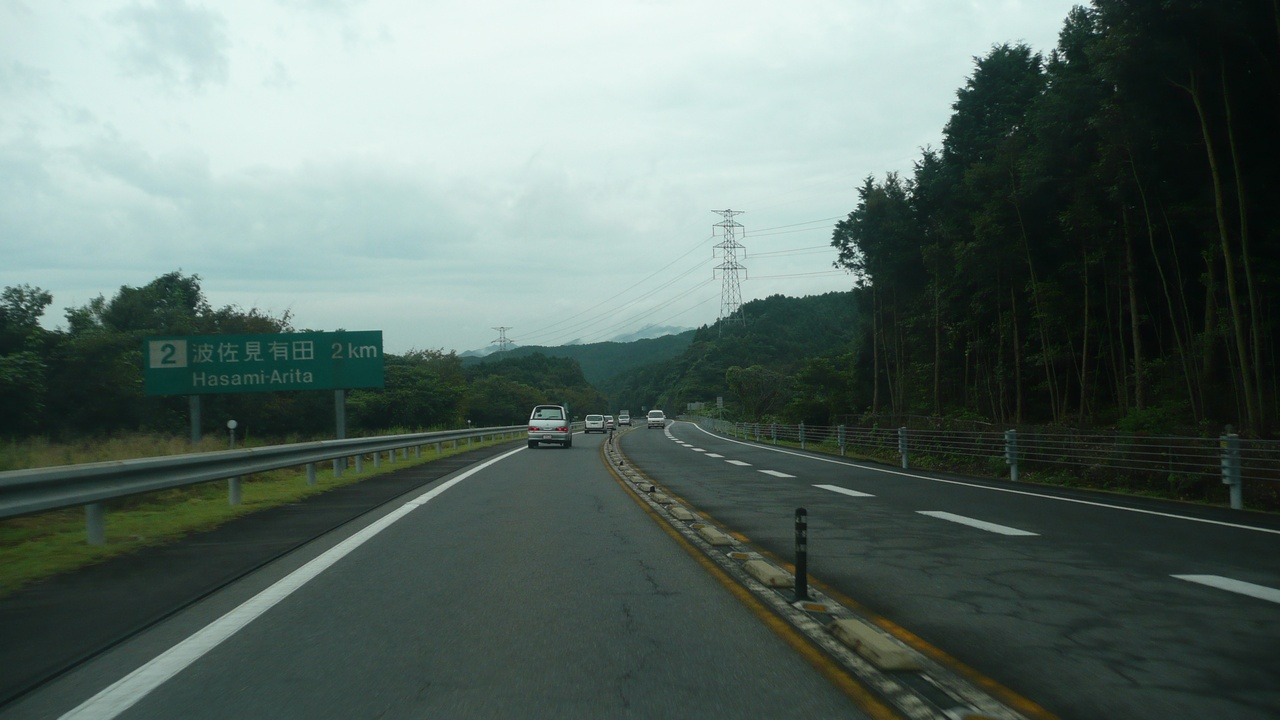 Takeo Sasebo Road (Nishikyushu Expressway - Hasami Town, Nagasaki, Japan)